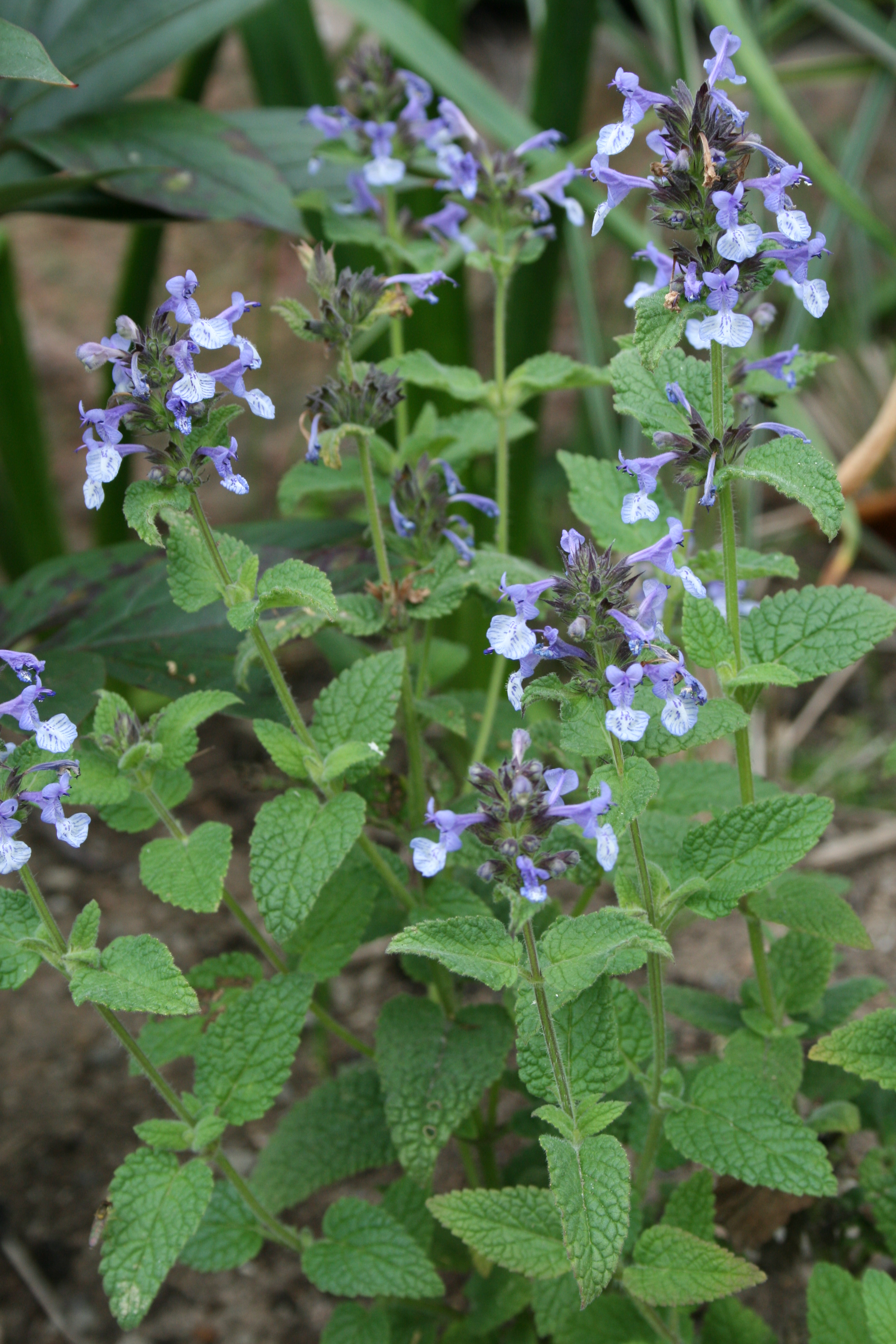 Nepeta clarkei